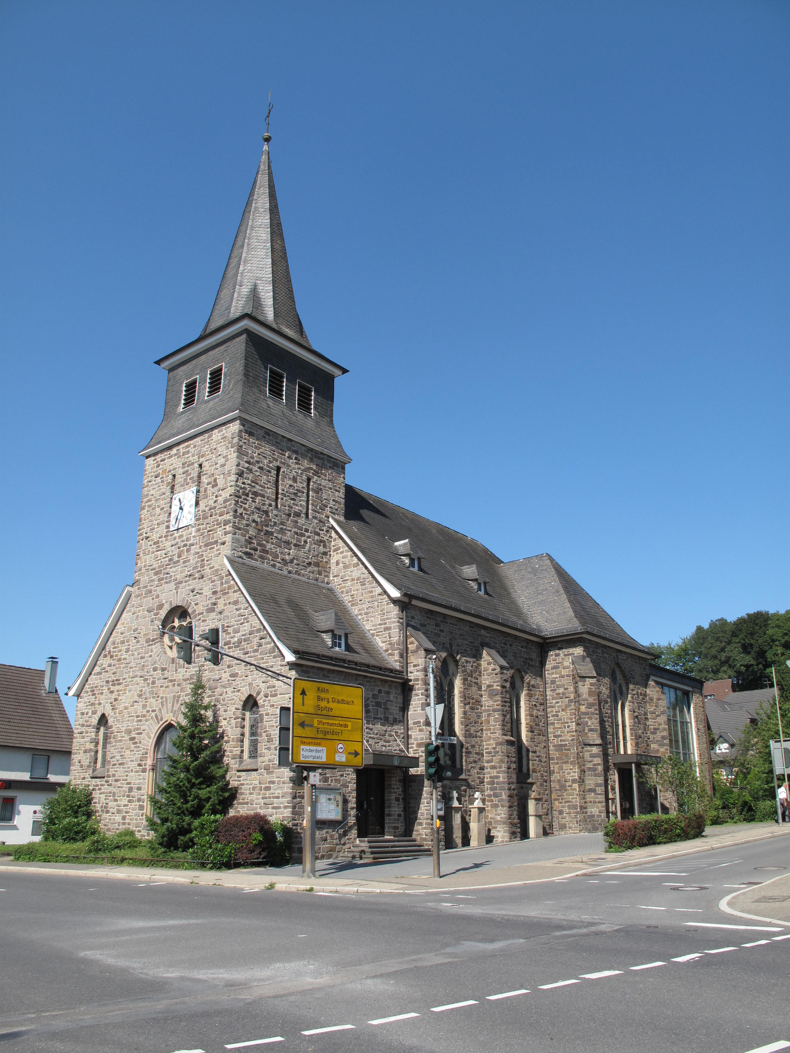 Biesfeld, church